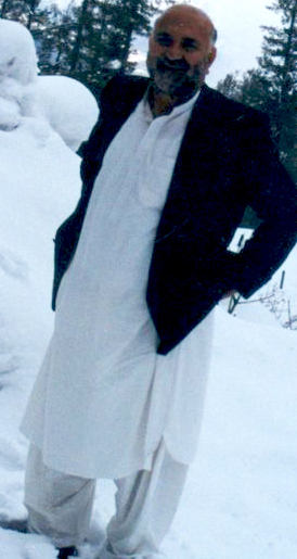 Abdul Haq picture